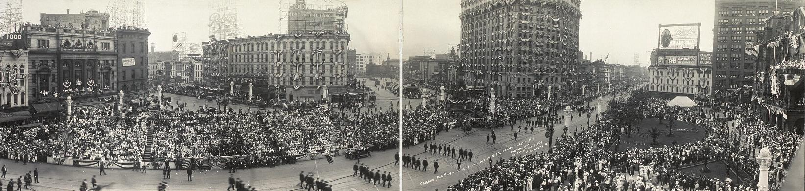 Parade of the Grand Army of the Republic during the 1914 meeting in Detroit, Michigan